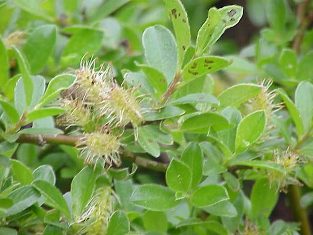 Species: Salix formosa Family: Salicaceae Image No. 2